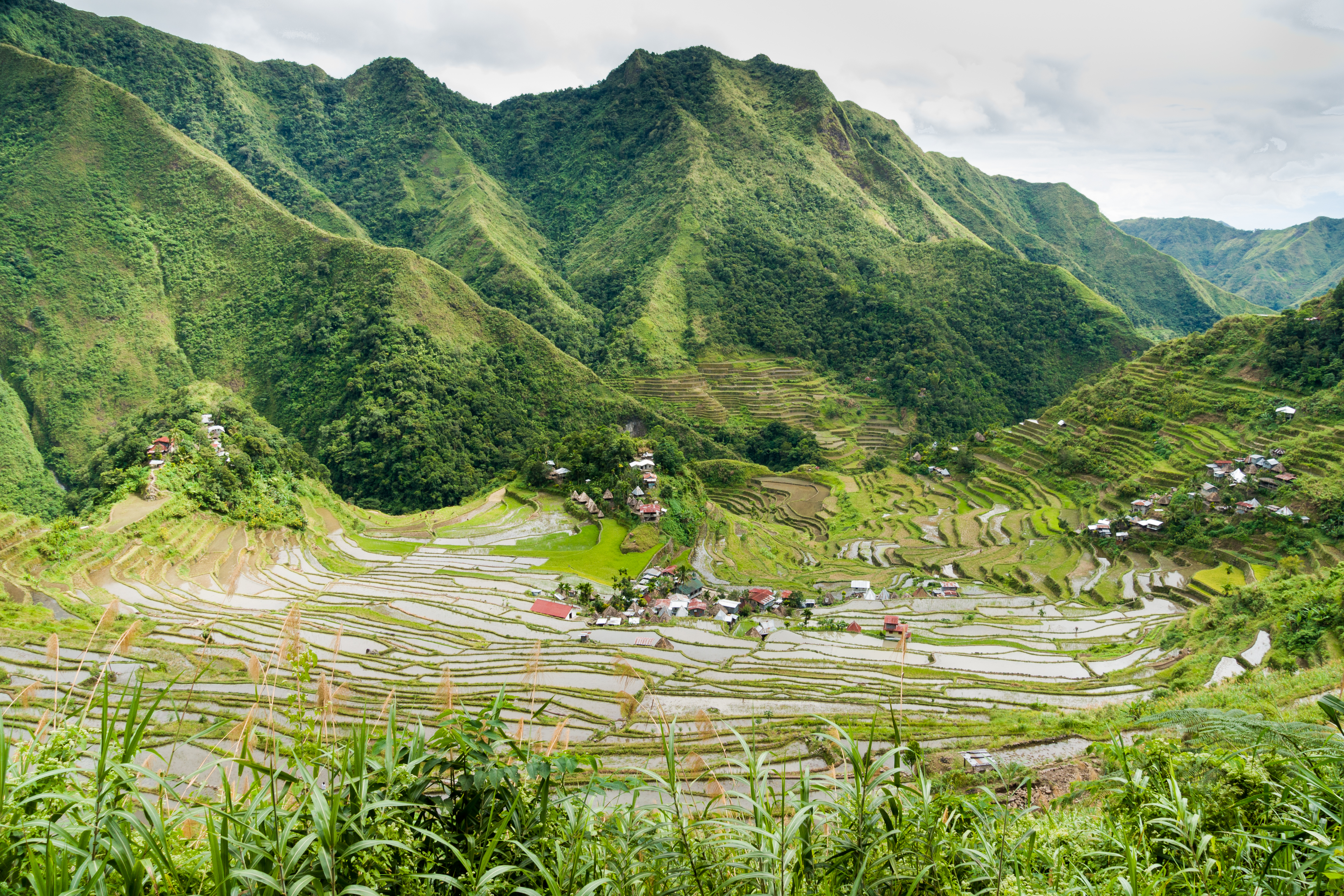 Banaue, Philippines: Batad Rice Terraces